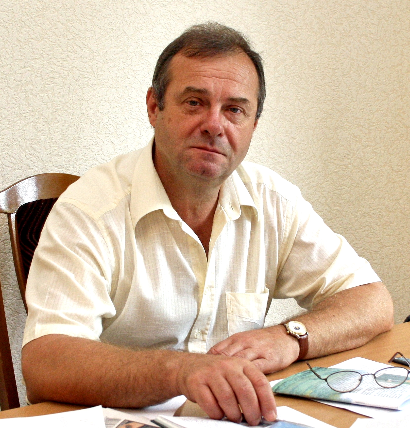 Olexandr Balabko